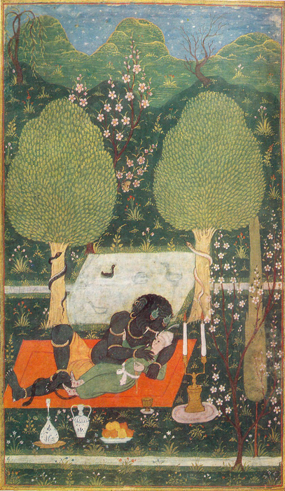 Makhan in an enchanted garden, embraced by an efreeti. Illustration from an illuminated manuscript of Hamsah, a poem by Nezami.